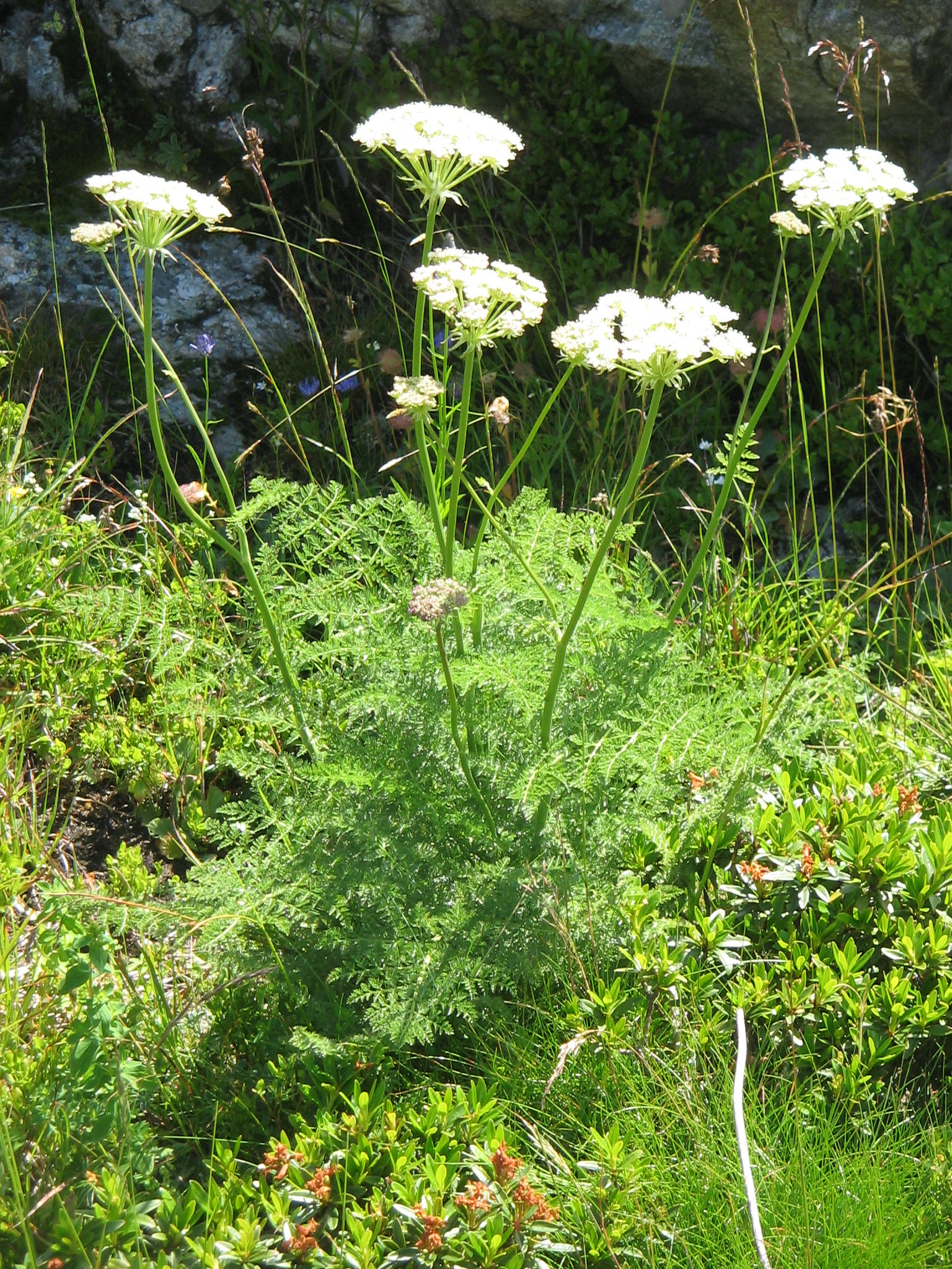 Laserpitium halleri